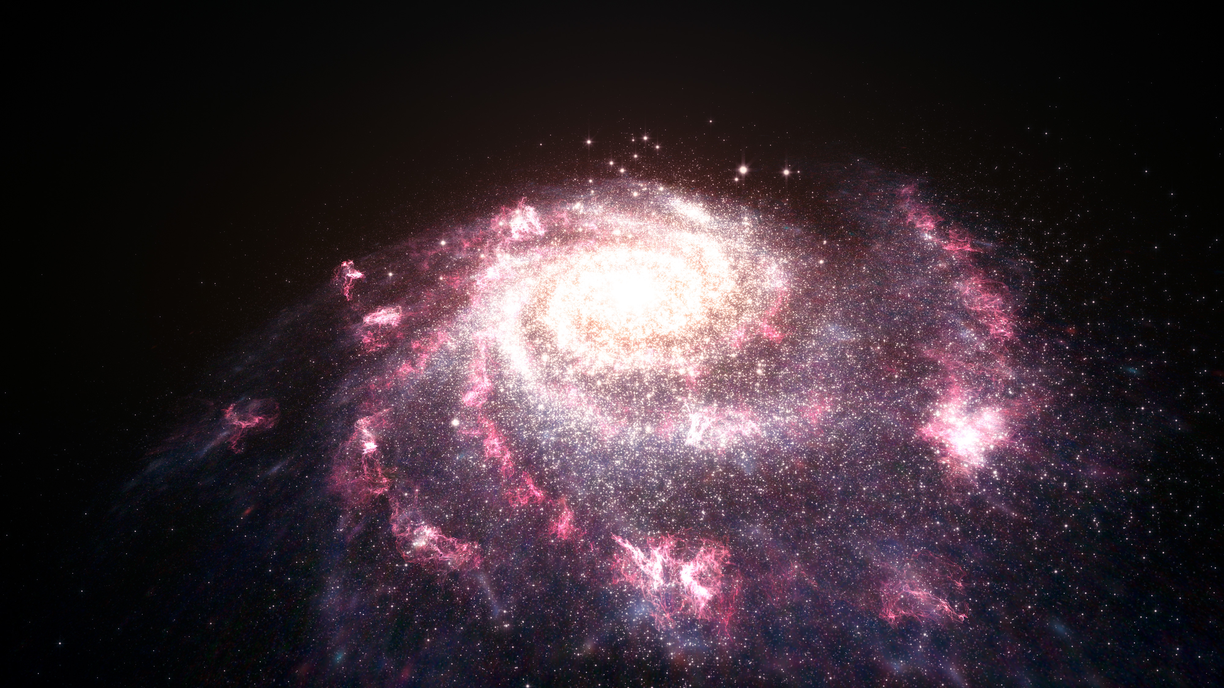 This illustration shows a messy, chaotic galaxy undergoing bursts of star formation. This star formation is intense; it was known that it affects its host galaxy, but this new research shows it has an even greater effect than first thought. The winds created by these star formation processes stream out of the galaxy, ionising gas at distances of up to 650 000 light-years from the galactic centre.